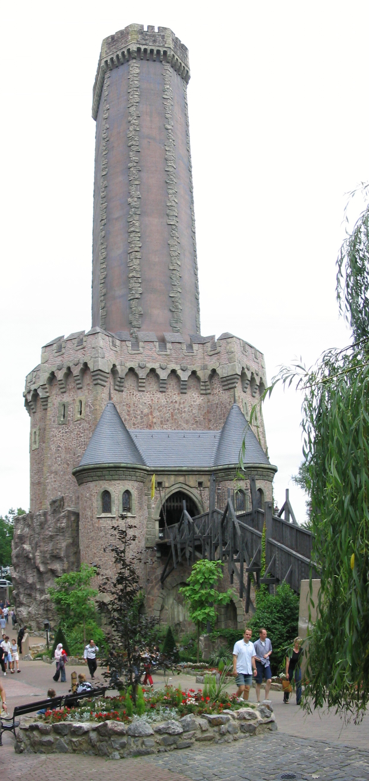 Mystery Castle at Phantasialand